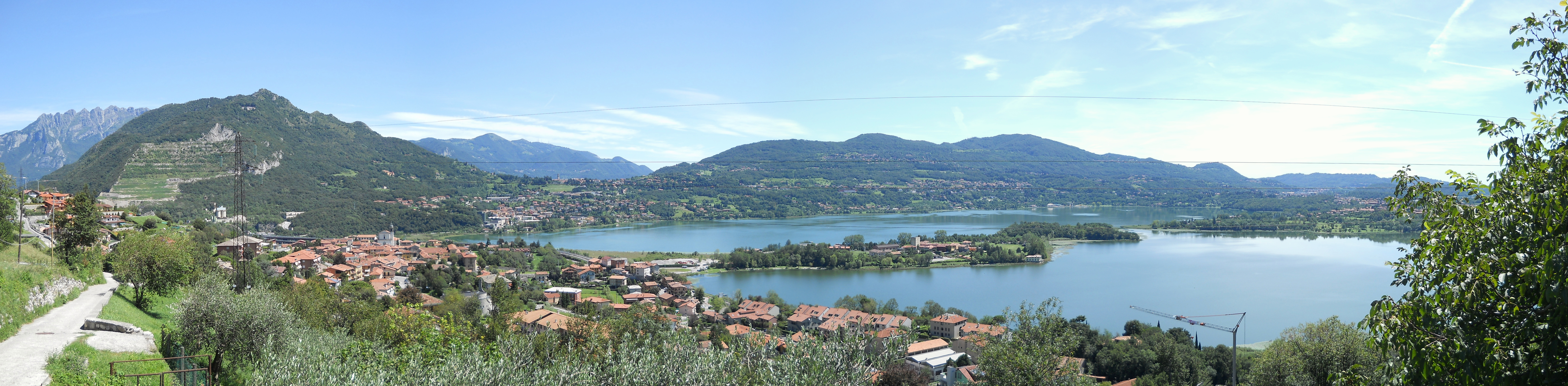 Panoramic view of Lago di Annone from Pozzo di Civate, Lecco, Italy